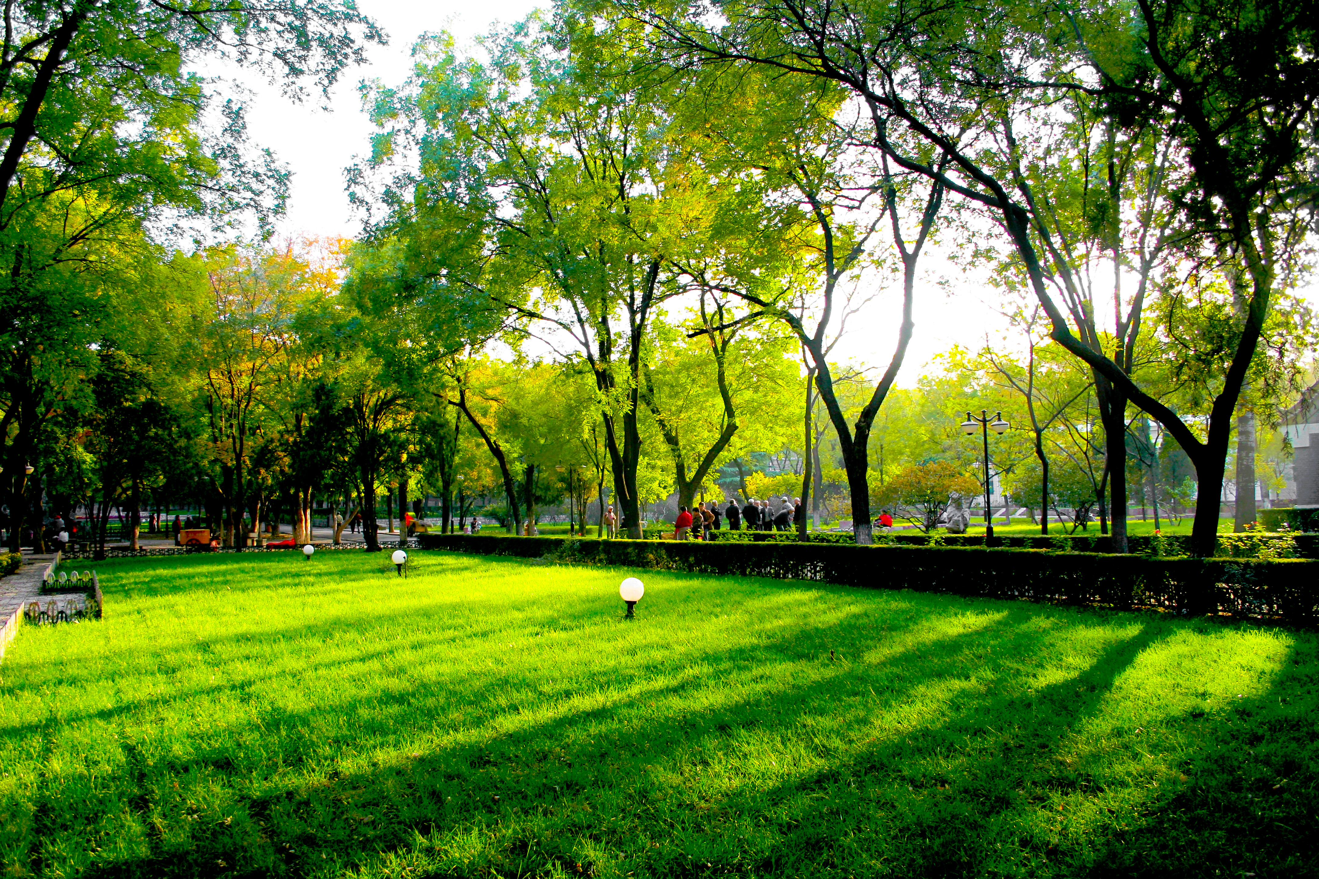 Photograph of lawn and trees on the central quadrangle of Baotuquan Campus, Shandong University, Jinan, China